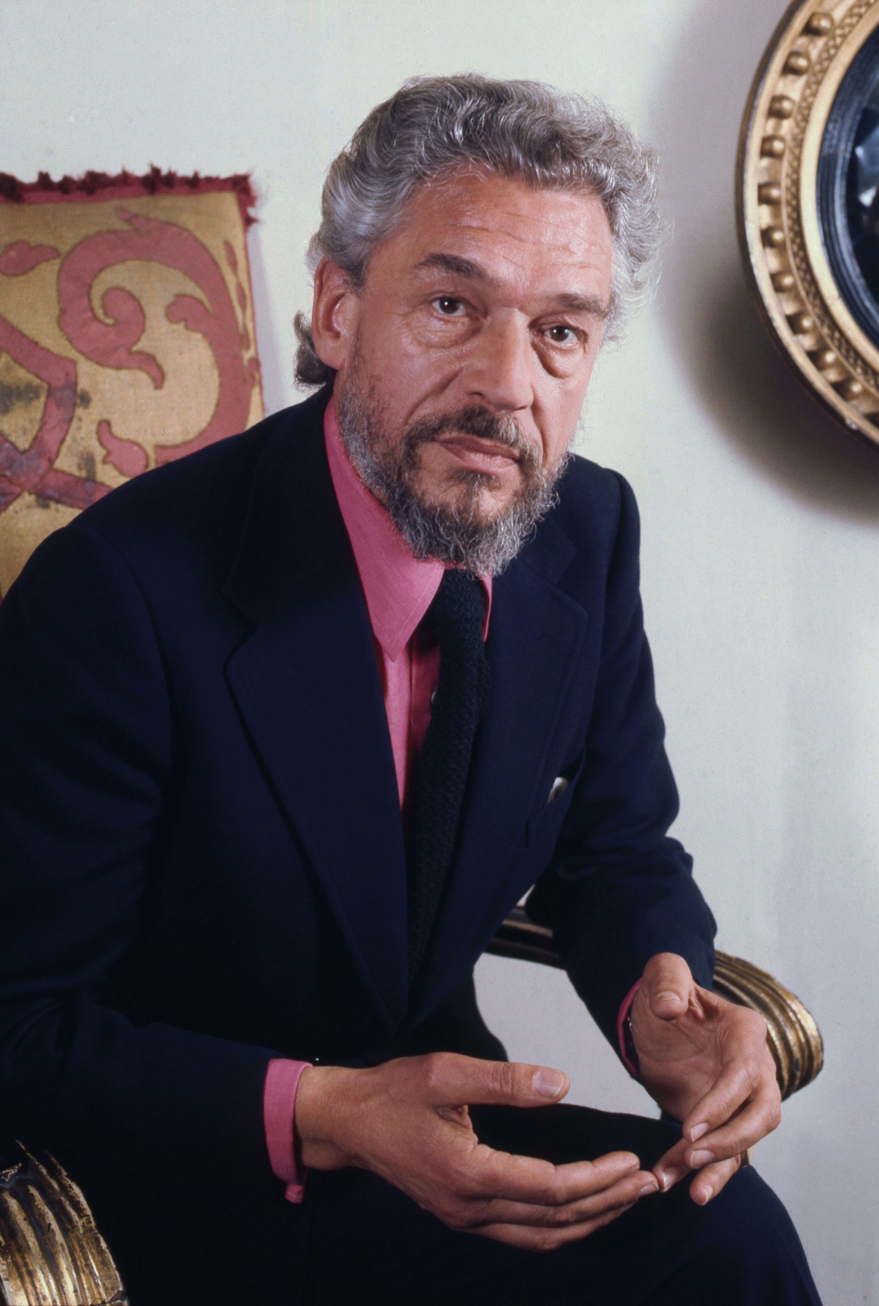 Paul Scofield at photographer's studio london